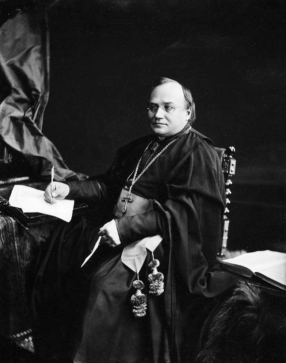 Photograph, Archbishop Taché, Montreal, QC, 1873, William Notman (1826-1891), Silver salts on glass - Wet collodion process - 25 x 20 cm